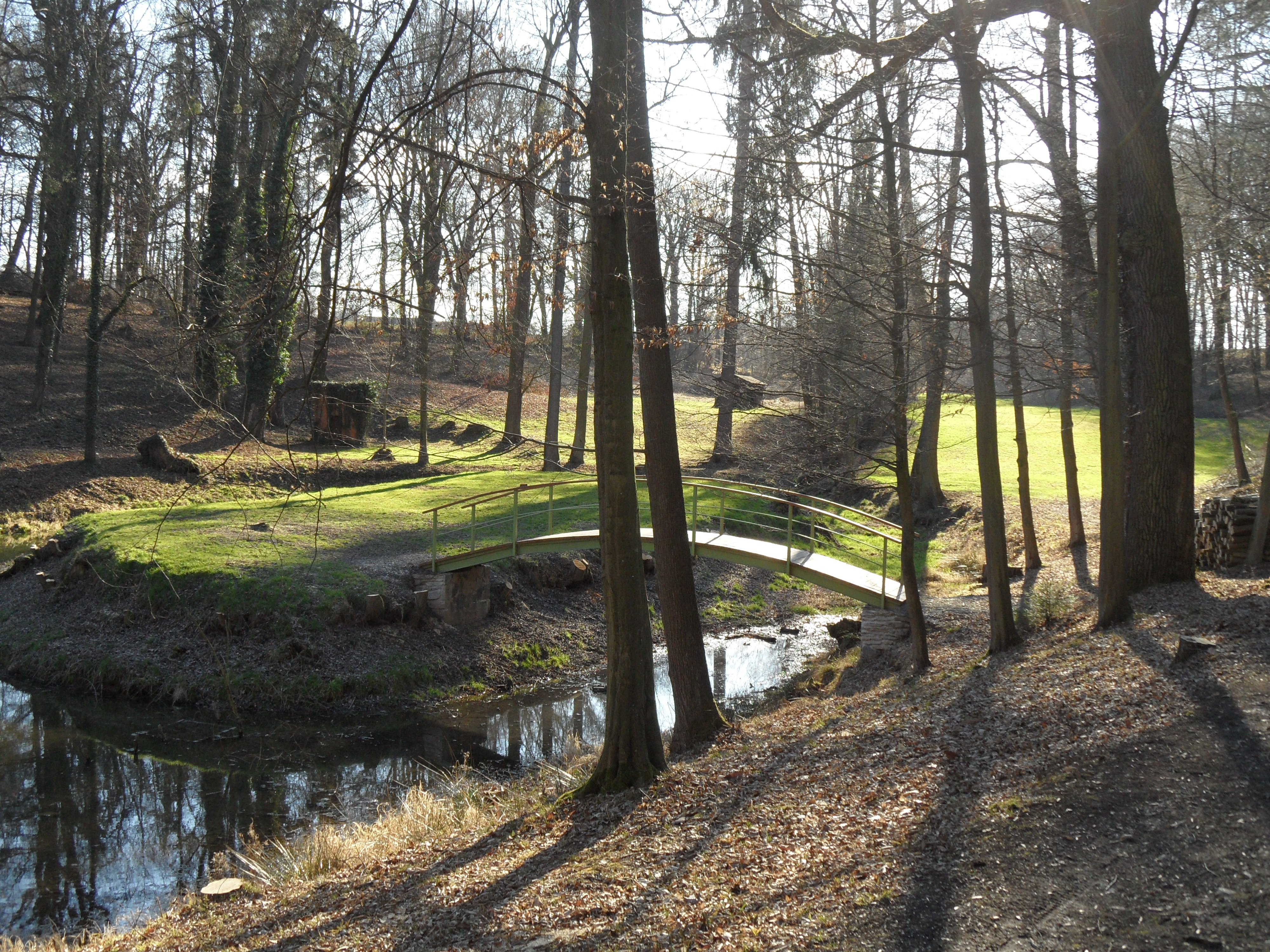 Hostačov (Skryje) H. Parkland, View around Small Bridge, Havlíčkův Brod District, the Czech Republic.